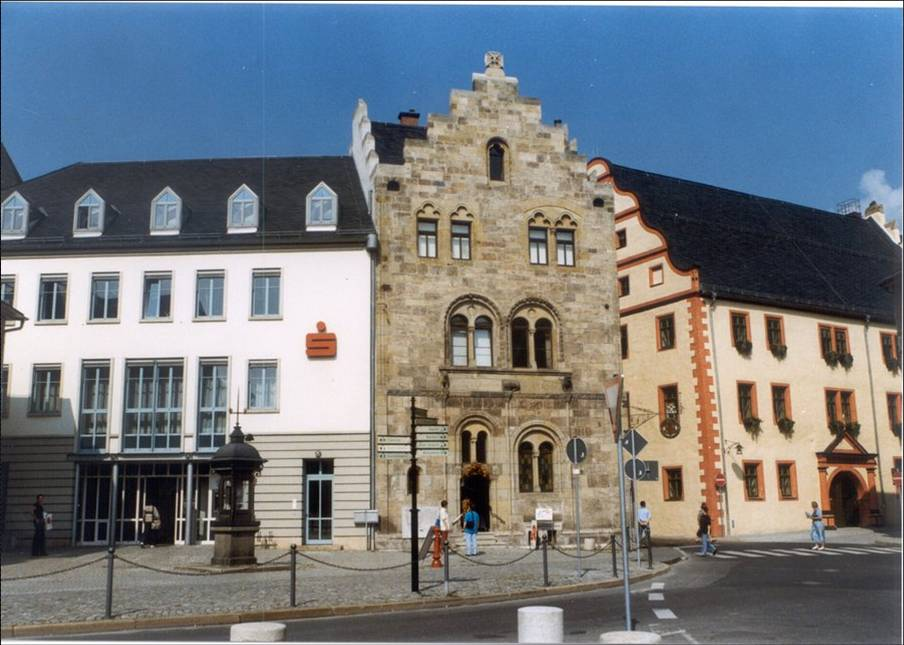 Headquarters Kreissparkasse Saalfeld-Rudolstadt